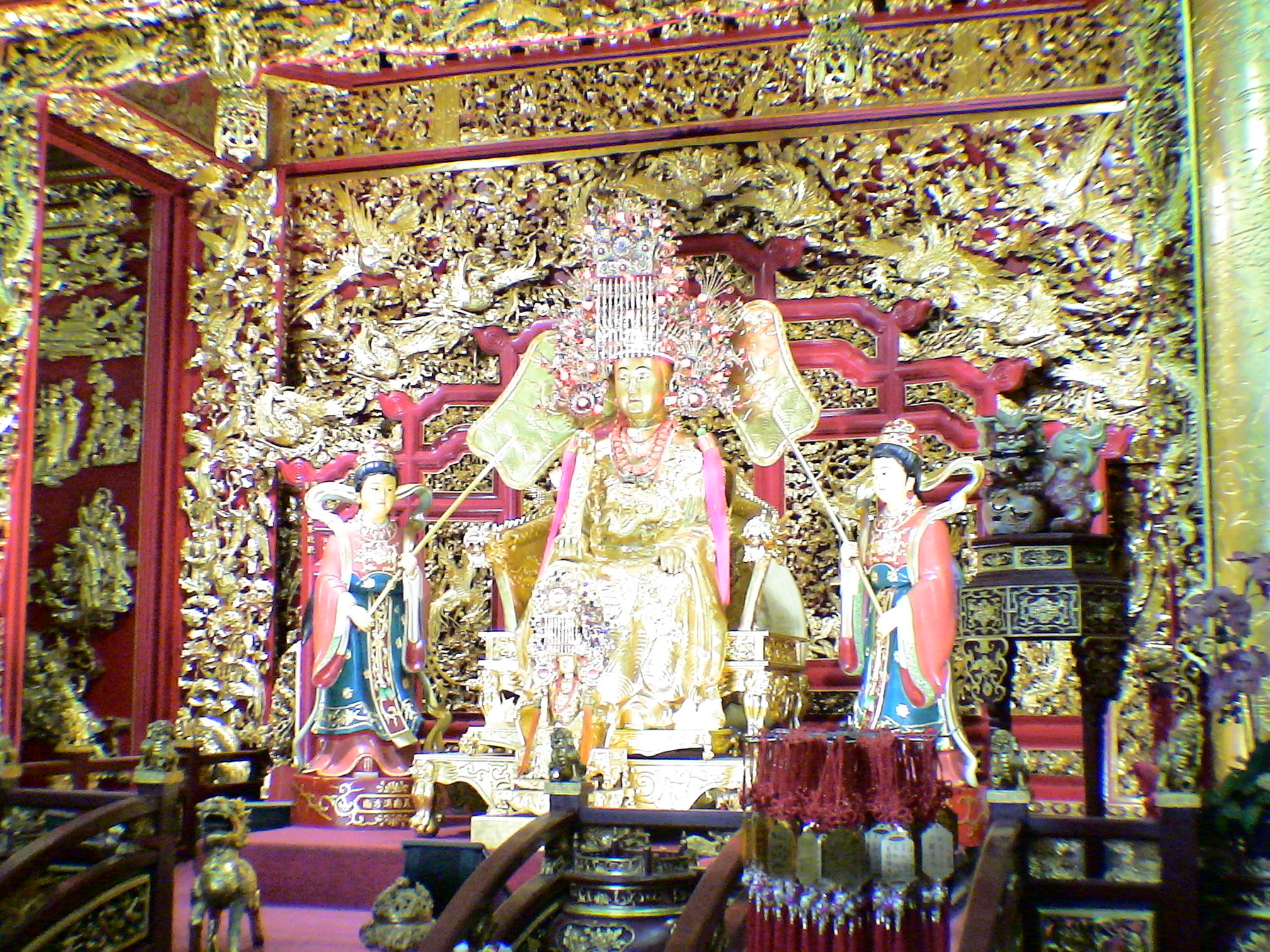 The Golden Matzu statue in suao, Taiwan.Its made of pure gold,weight 200KG.